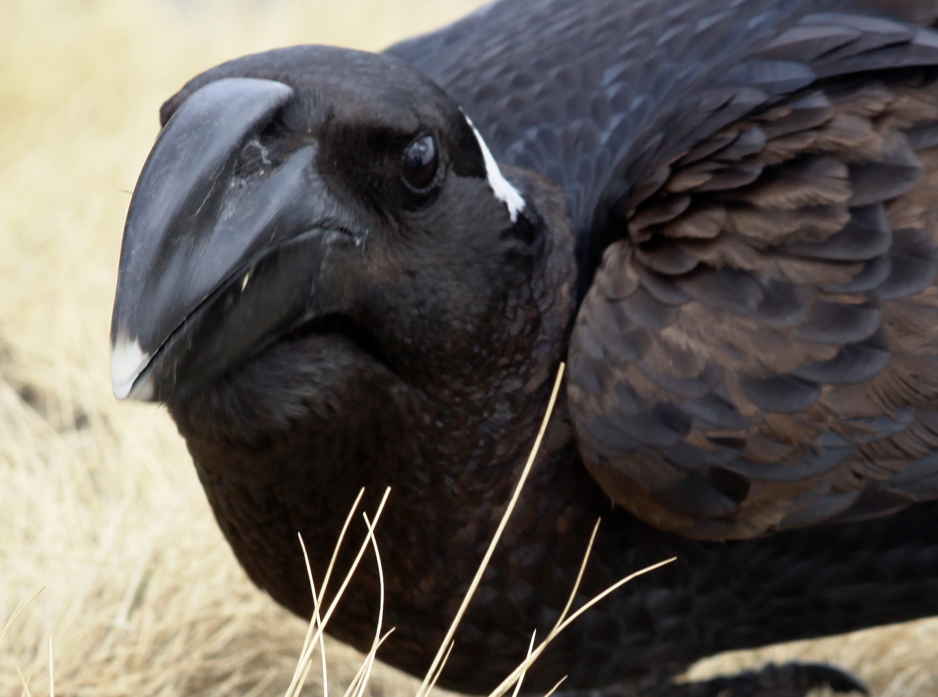 Corvus crassirostris, photographed in Ethiopia